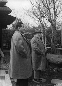 Former Japanese Prime Minister Shigeru Yoshida (1878–1967, in office 1946–57 and 48–54) and his son-in-law Rep. Takakichi Aso.